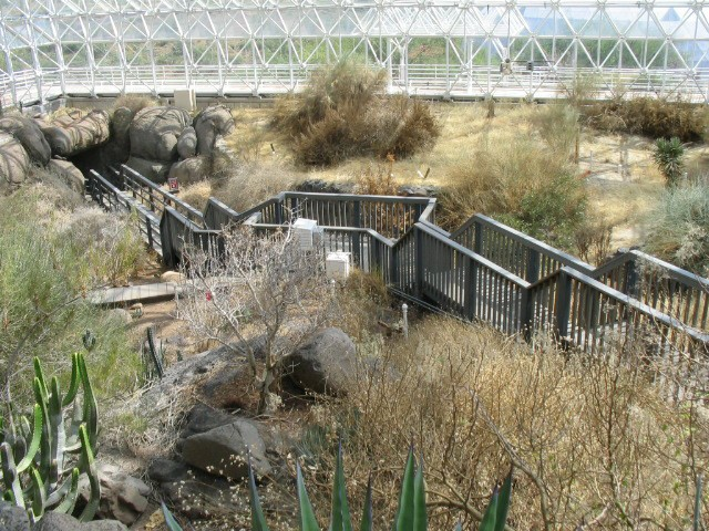 The Coastal Fog Desert section of Biosphere 2. August 2005.